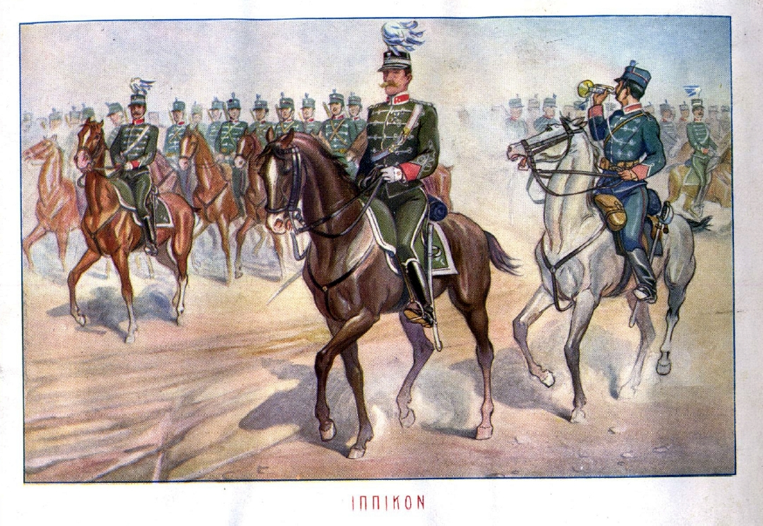 Greek cavalry on parade, ca. 1880-1910